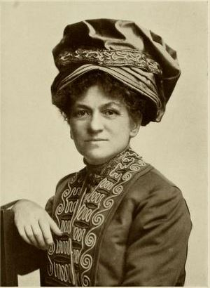 Fannie E. McKinney-Hughey, Kajiwara Photo, Johnson, Anne (André) "Mrs. Charles P. Johnson", 1871-. Notable women of St. Louis, 1914; (Kindle Location 4402). [St. Louis, Woodward.]